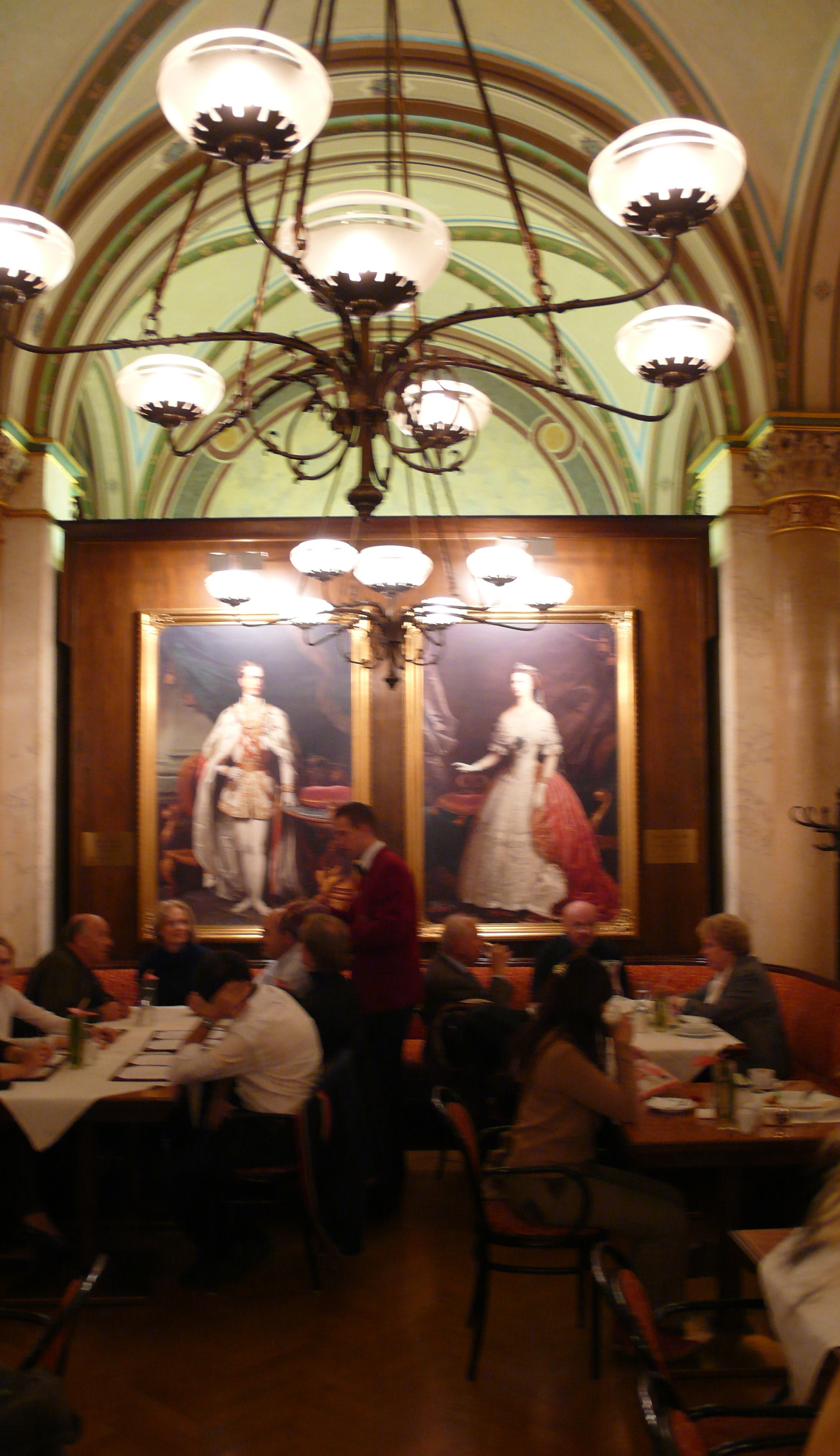 Café Central Vienna, Sissi and Franzl at the wall